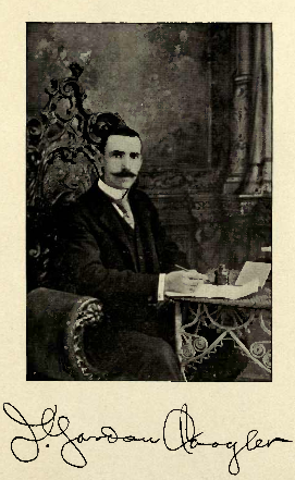 Portrait of J. Gordon Coogler, from the frontispiece of his collected works